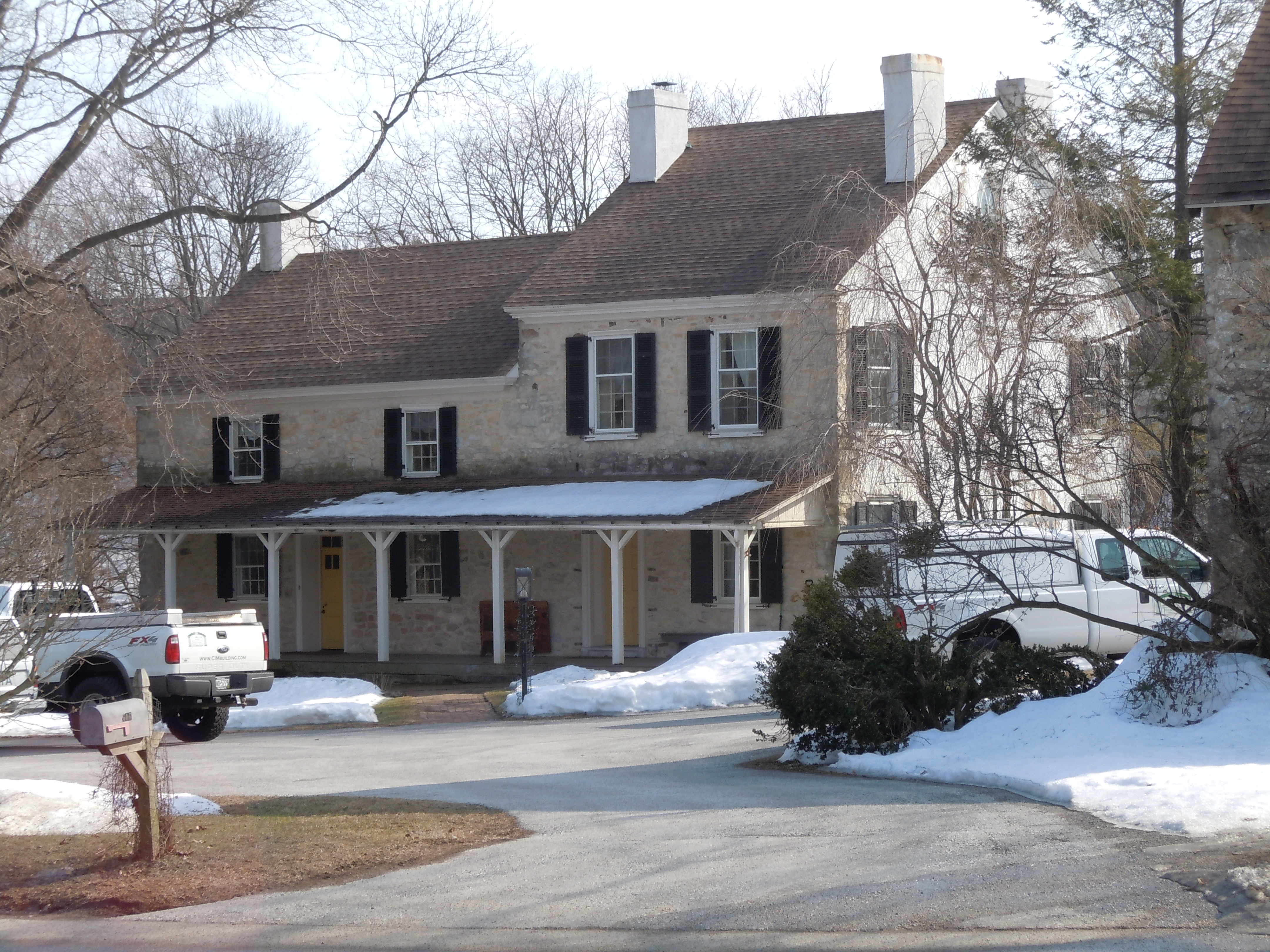 White Horse Tavern on the NRHP since December 29, 1978. Located northwest of Malvern at 480 Swedesford Road (renumbered to 606 Swedesford Road) On mile marker 24 on the Old Lancaster Road, overnight stop on the first stage from Philadelphia to Lancaster. General Washington used the older part (smaller-left) as his headquarters following Battle of Brandywine and during the aborted "Battle in the Clouds." Important stop for Washington's messenger from Valley Forge to Lancaster (temporary US capital). In East Whiteland Township, Chester County, Pennsylvania. North of US 30 and very near US 202.